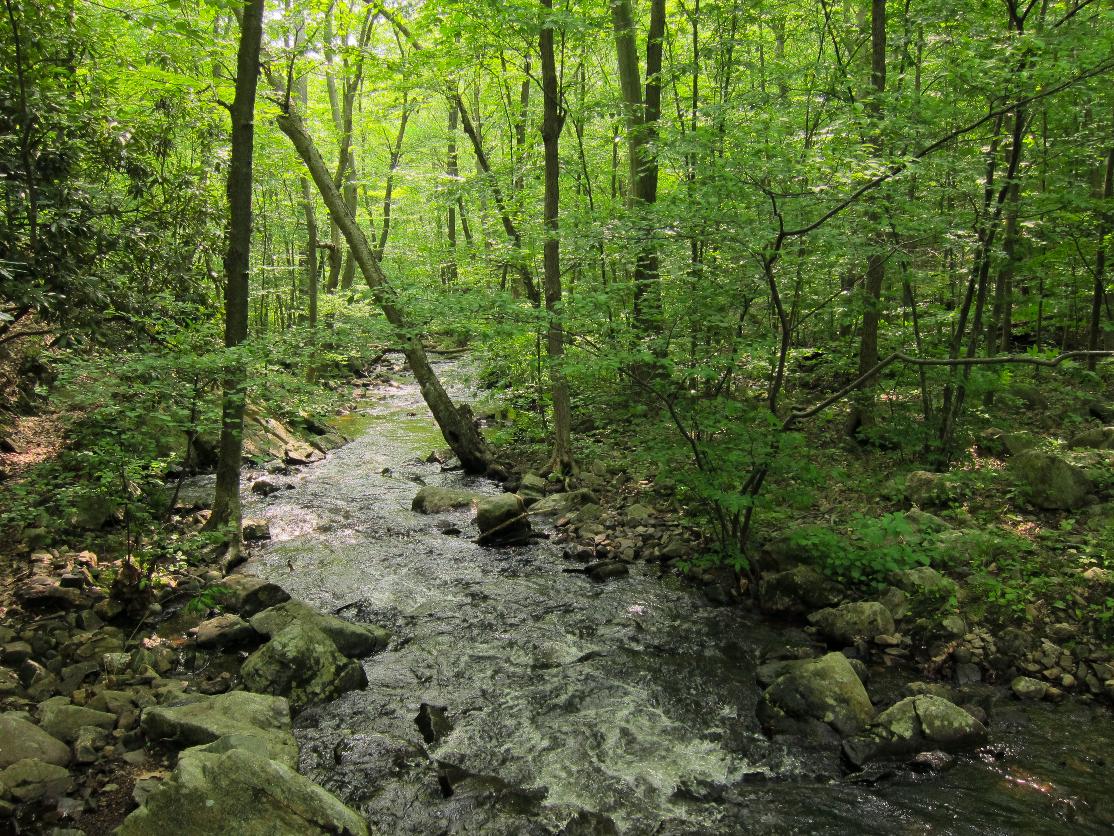 Posts Brook from Norvin Green State Forest Lower Trail